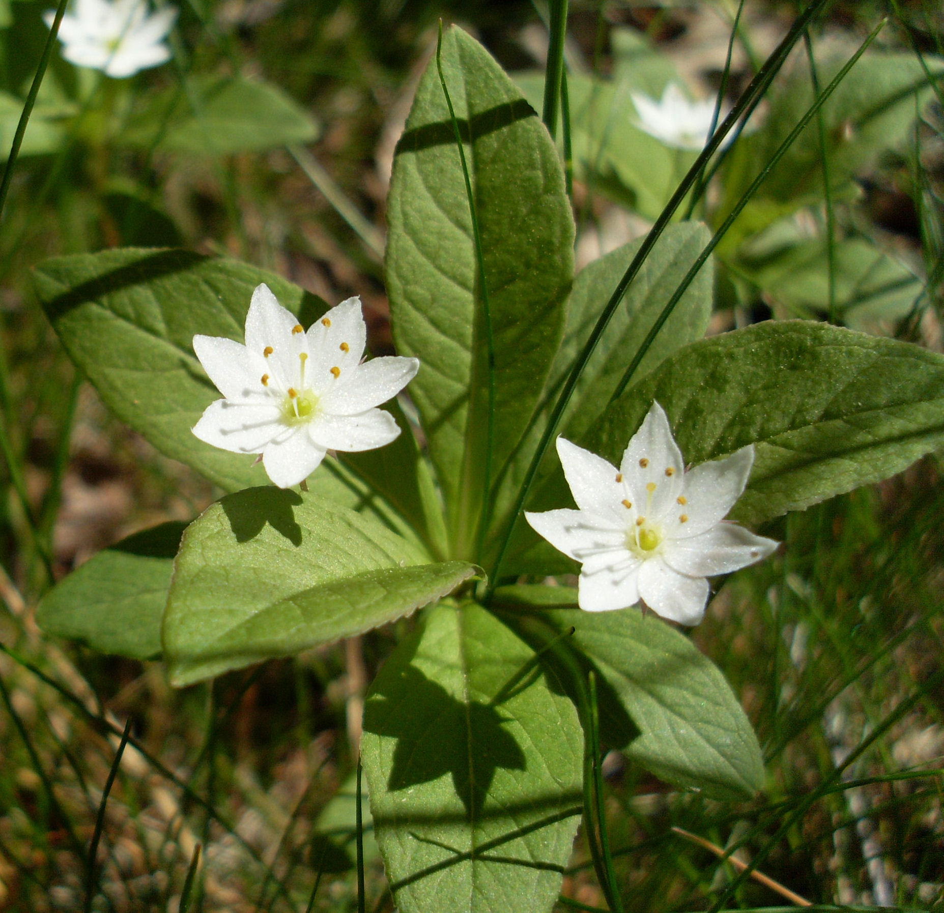 Trientalis europaea